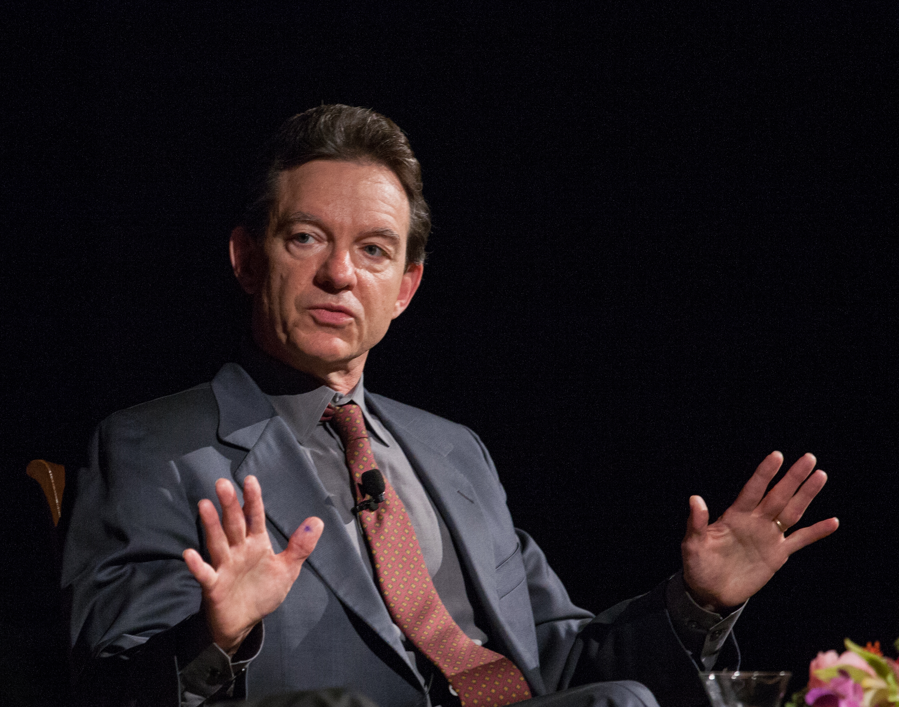 Based on more than two hundred interviews with current and former Scientologists and years of archival research, Lawrence Wright discussed his book Going Clear: Scientology, Hollywood, and the Prison of Belief, which offers an exhaustive account of the church, from its founding by L. Ron Hubbard to its present-day leadership.